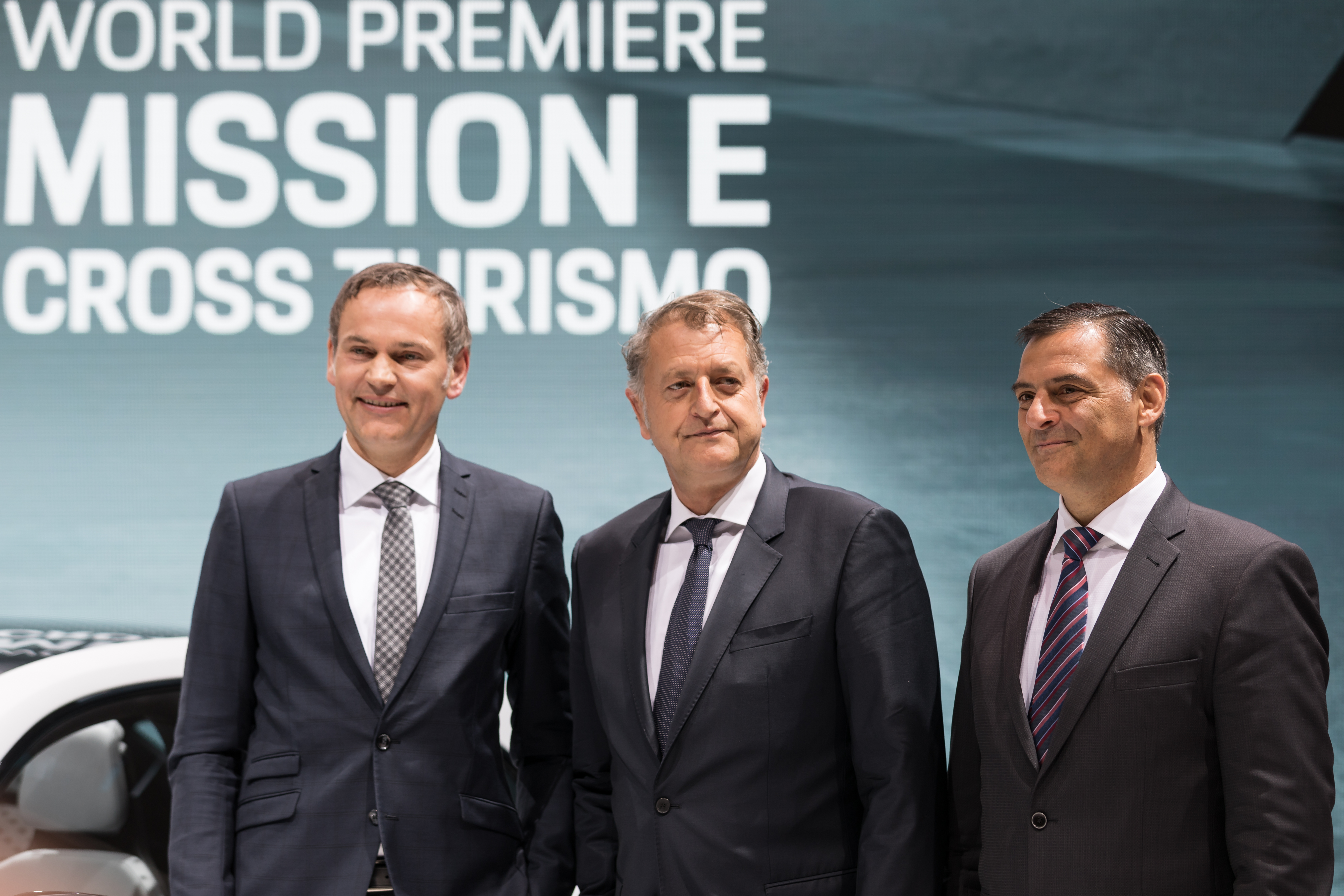 Geneva International Motor Show 2018, Porsche